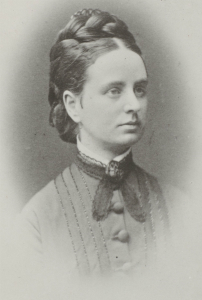 Swedish translator Emma Silfverstolpe (1841-1911)